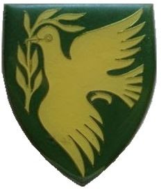 SADF era Vrede Commando emblem